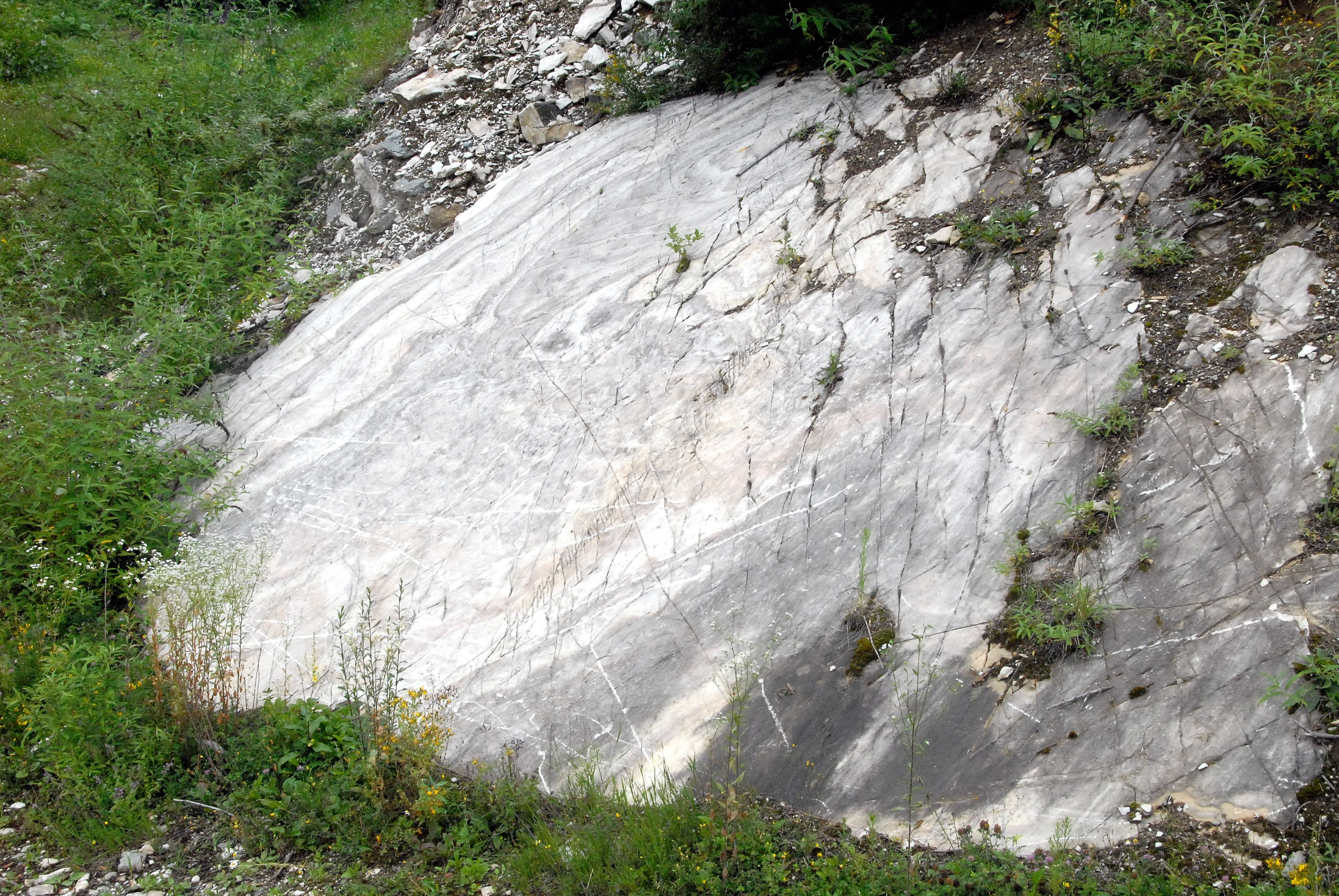 Visible marble deposit in the property of Mr. Gabriel Knaus, Sekull in Techelsberg, district Klagenfurt Land, Carinthia, Austria, EU